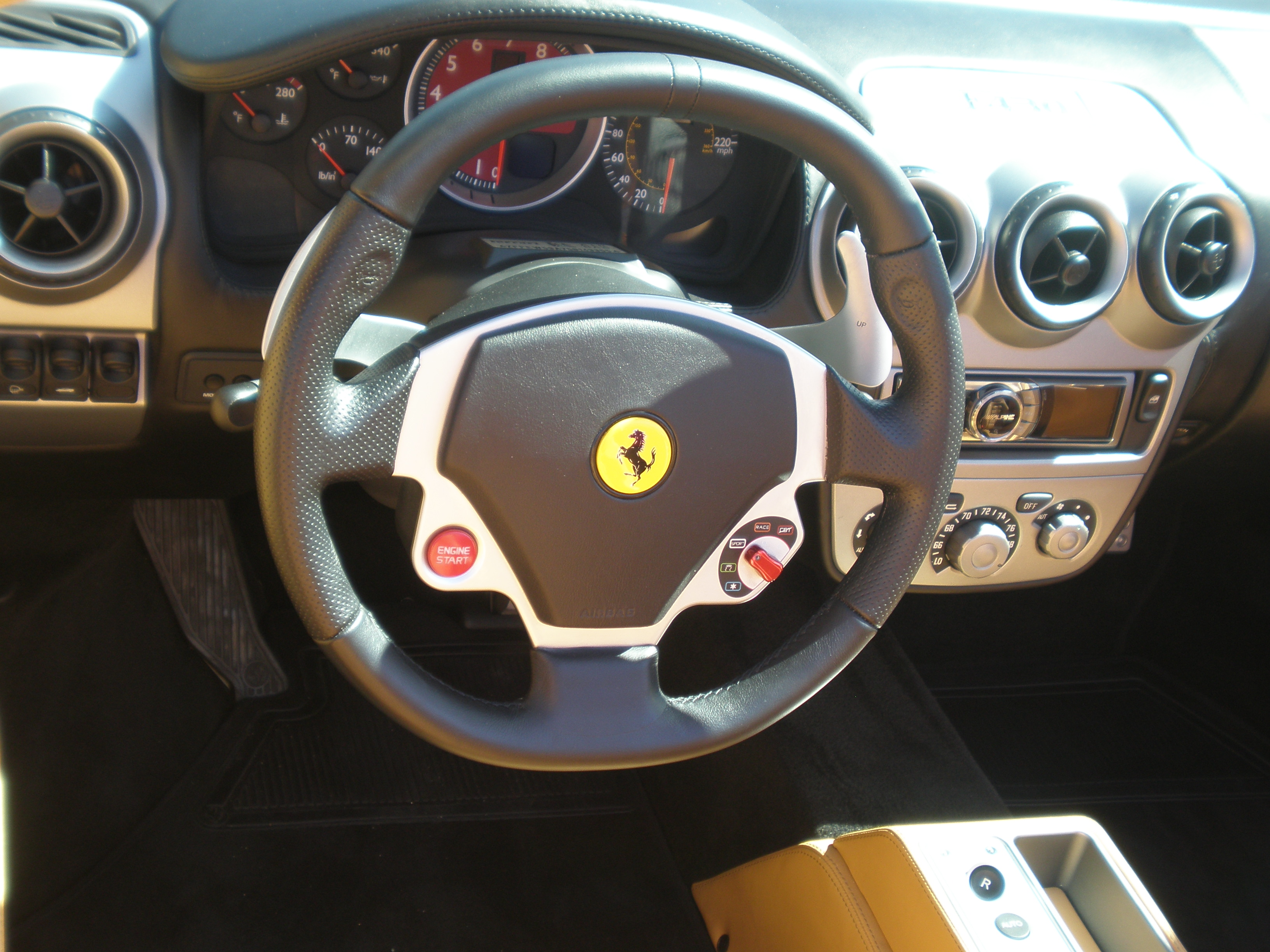 The steering wheel and dashboard of a Ferrari F430 Spider at the Pacific Coast Dream Machines vehicle show at the Half Moon Bay Airport in Half Moon Bay, California.